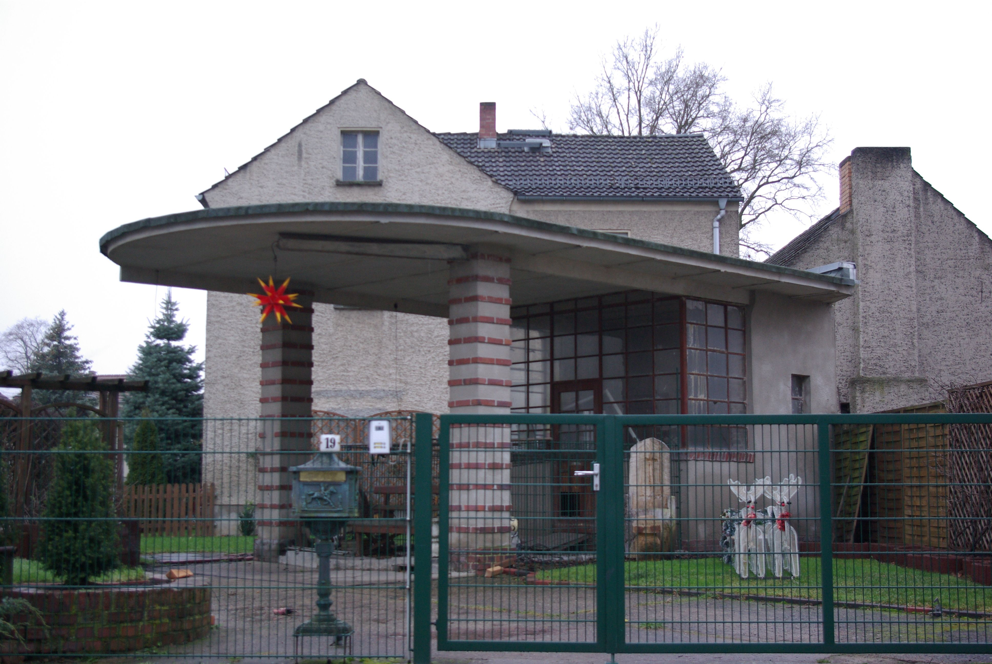 Heidesee, Dahme-Spreewald district, Brandenburg state, Germany. Former Petrol station at Hauptstraße with Berliner Straße is a cultural heritage monument.